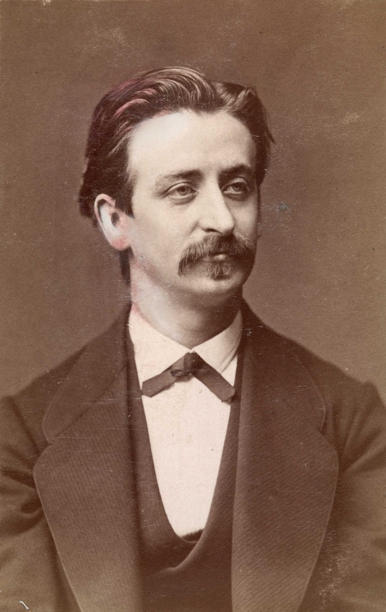 Norwegian jeweller Olaf Tostrup (1842–1882)